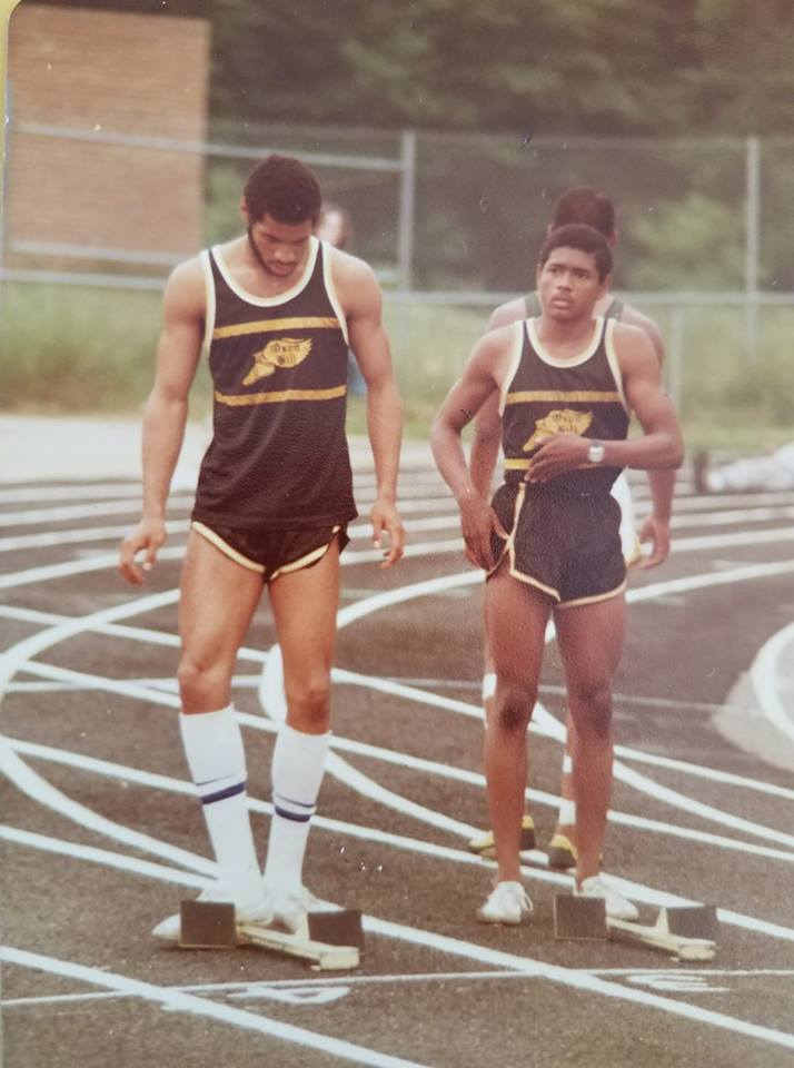 Luis Morales (athlete) running in college